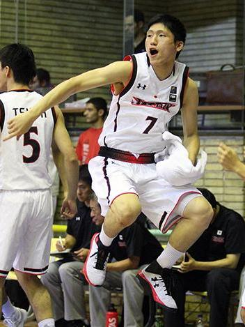 Tensho Sugimoto